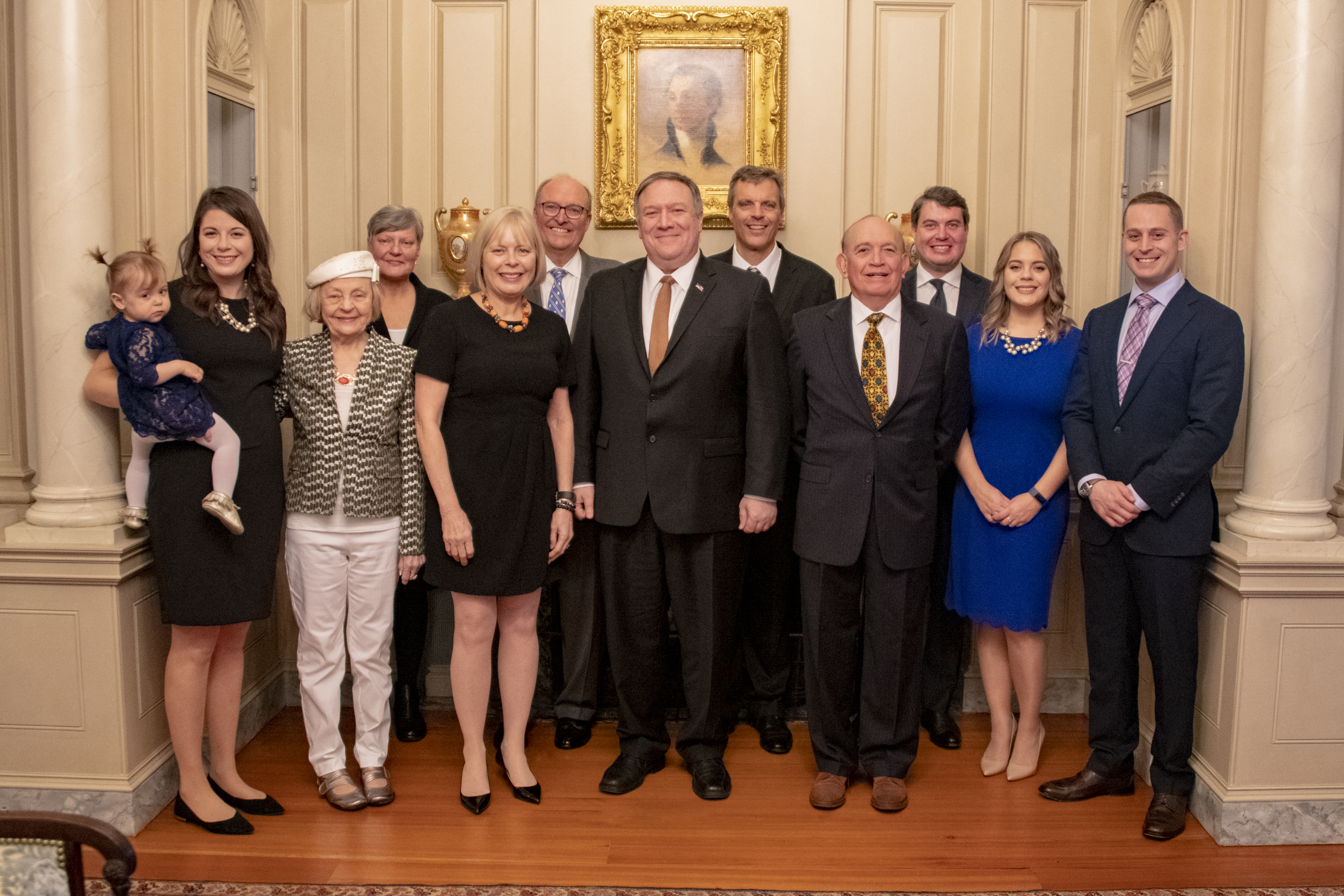 U.S. Secretary of State Michael R. Pompeo poses for a photo with Director General of the Foreign Service and Director of Human Resources and her family at her swearing-in ceremony at the U.S. Department of State in Washington, D.C., on March 15, 2019. [State Department photo by Ron Przysucha/ Public Domain]